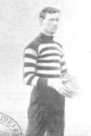 Photograph of Les Armstrong from the 1910 Weekly Times Victorian Footballer Postcard Series